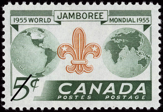 Canada 1955 stamp commemorating Scout Jamboree